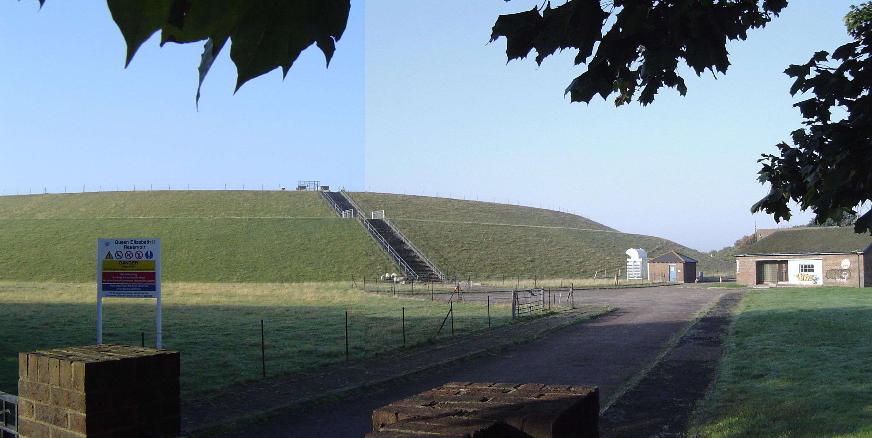 Queen Elizabeth II Reservoir, Molesey Surrey England